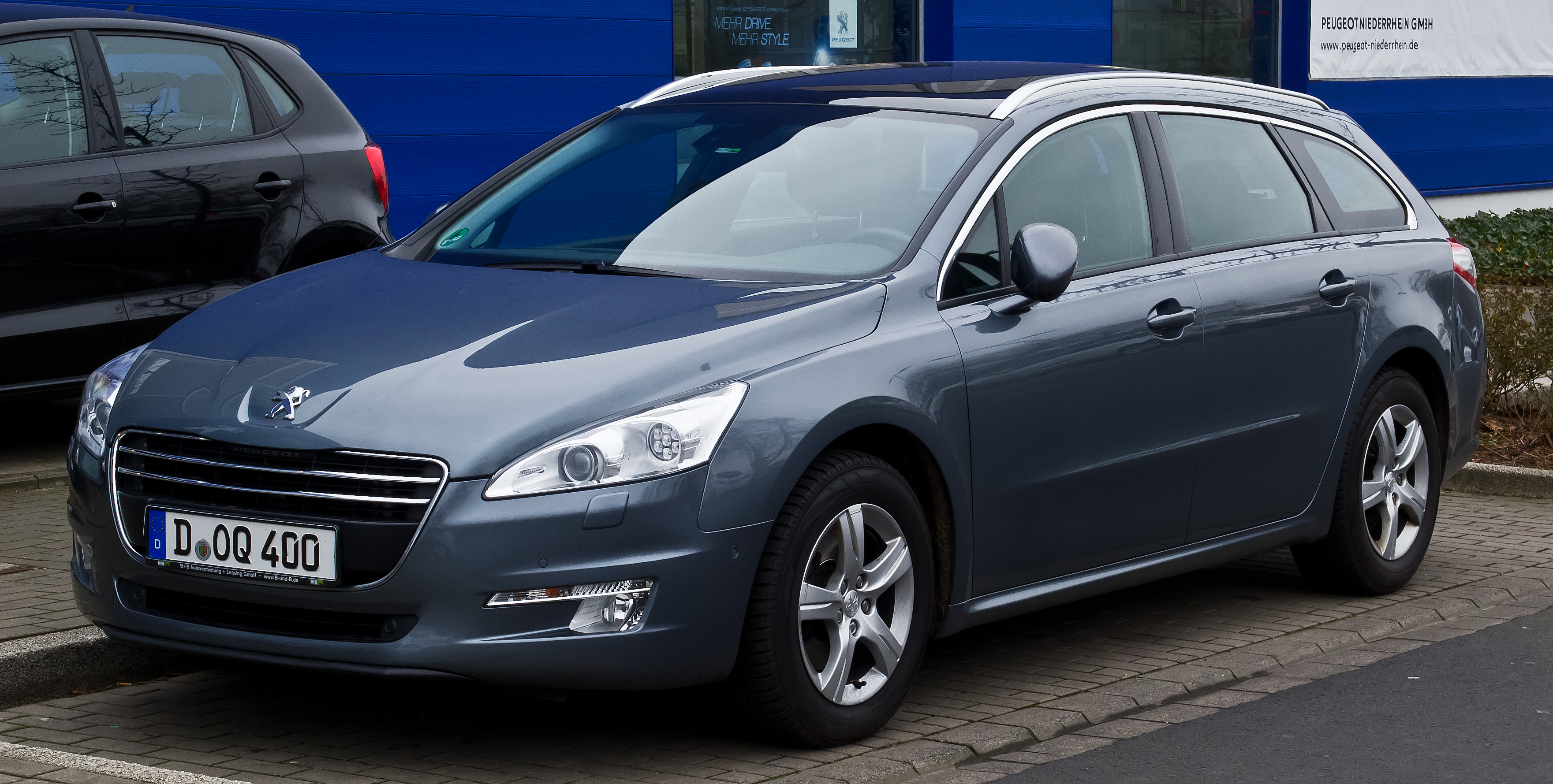 Peugeot 508 SW Active